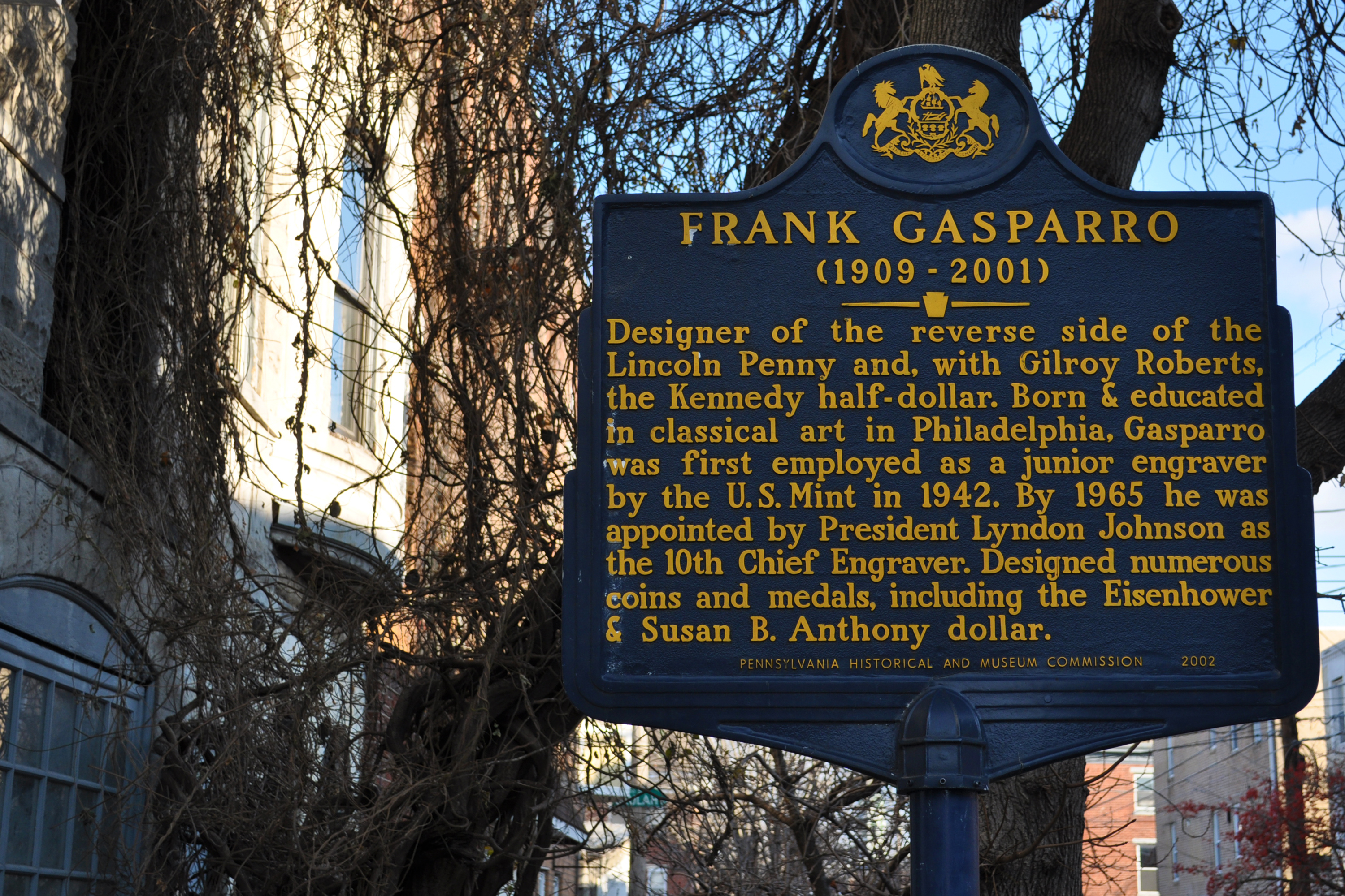 Frank Gasparro (1909-2001). Designer of the reverse side of the Lincoln Penny and, with Gilroy Roberts, the Kennedy half-dollar. Born and educated in classical art in Philadelphia, Gasparro was first employed as a junior engraver by the U.S. Mint in 1942. By 1965 he was appointed by President Lyndon Johnson as the 10th Chief Engraver. Designed numerous coins and medals, including the Eisenhower and Susan B. Anthony dollar. (Historical Marker at 727 Carpenter St., Philadelphia PA - Pennsylvania Historical and Museum Commission 2002)